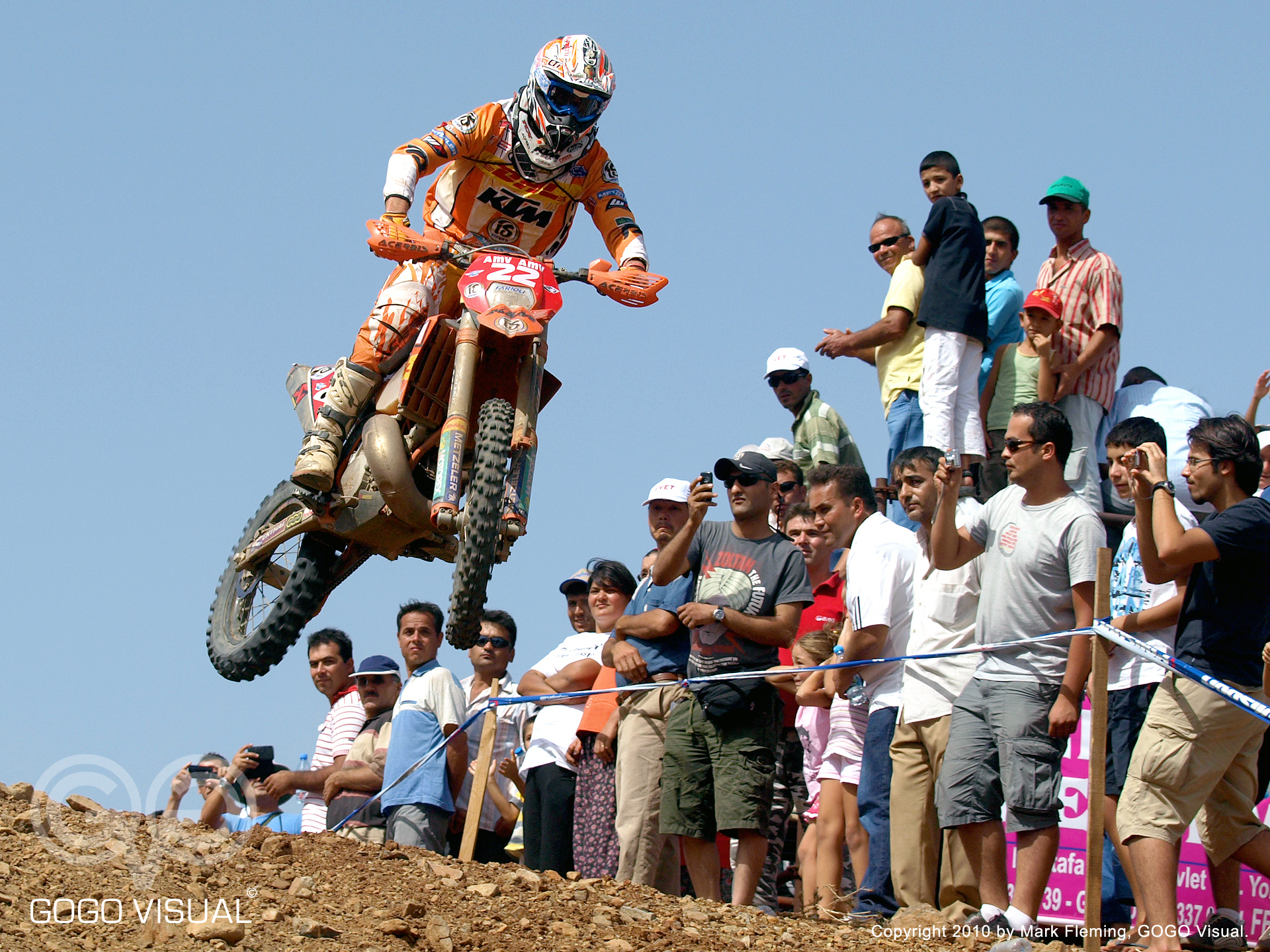 Thomas Oldrati rides his KTM E2 bike at the 2010 World Enduro Championship Grand Prix of Turkey.